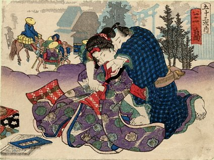 Shunga print, attributed to Kunisada, series ’The 53 Stations’, station Mishima